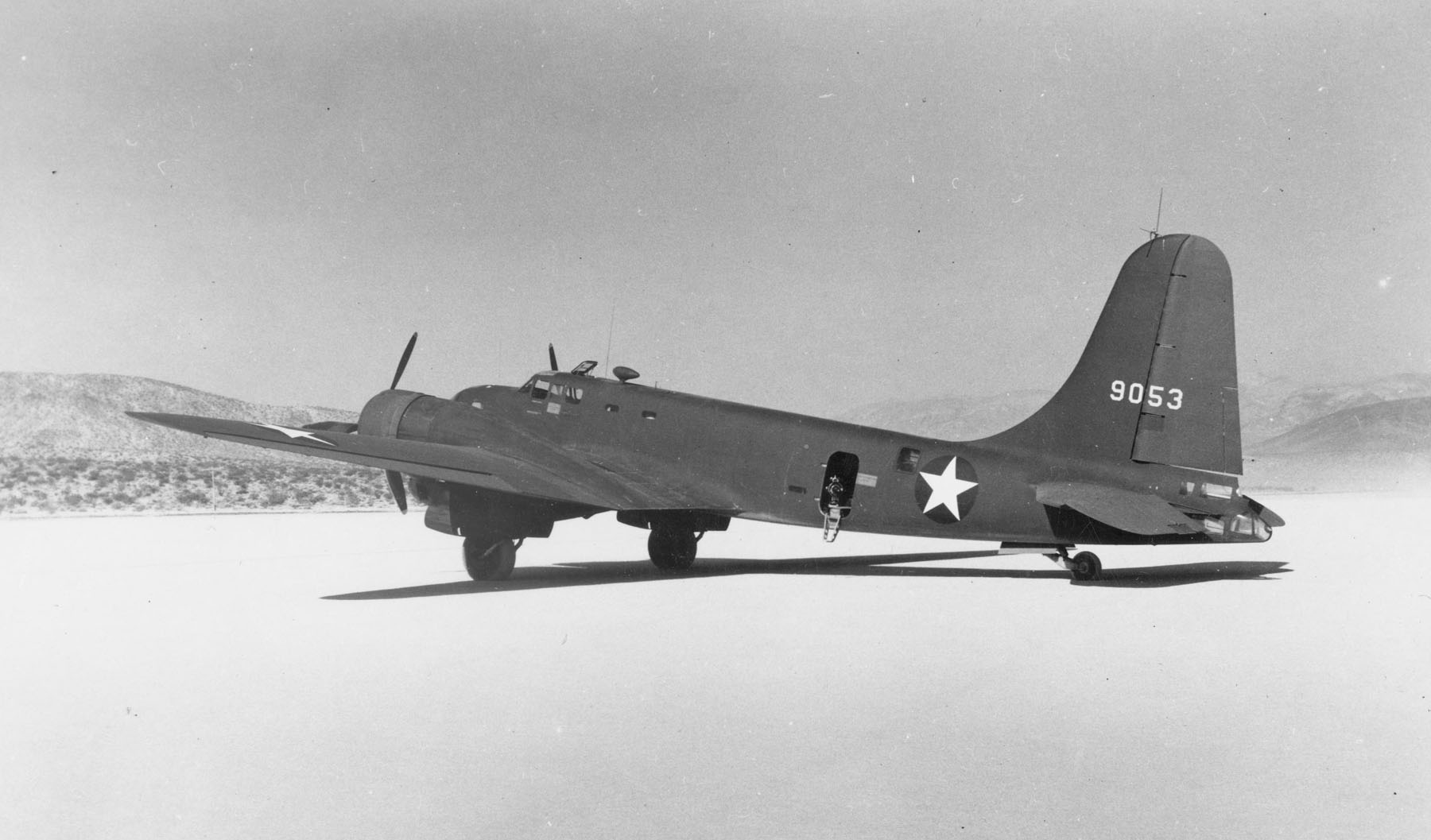 Douglas RB-23 of the USAAF, taken at Bicycle Lake, Calif. whilst assigned to Muroc Lake Army Air Base.